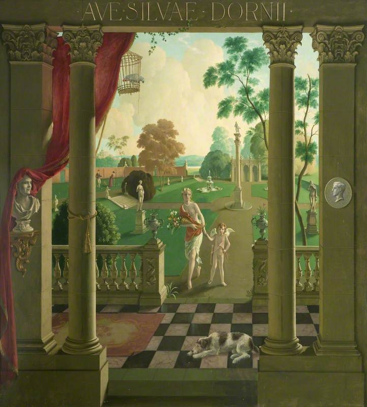 Ave Silvae Dornii (Mural Painting at Dorneywood, Buckinghamshire)